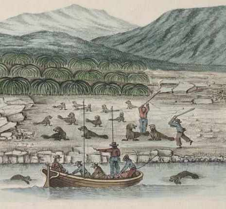 Detail from drawing by Sigismund Backstrom